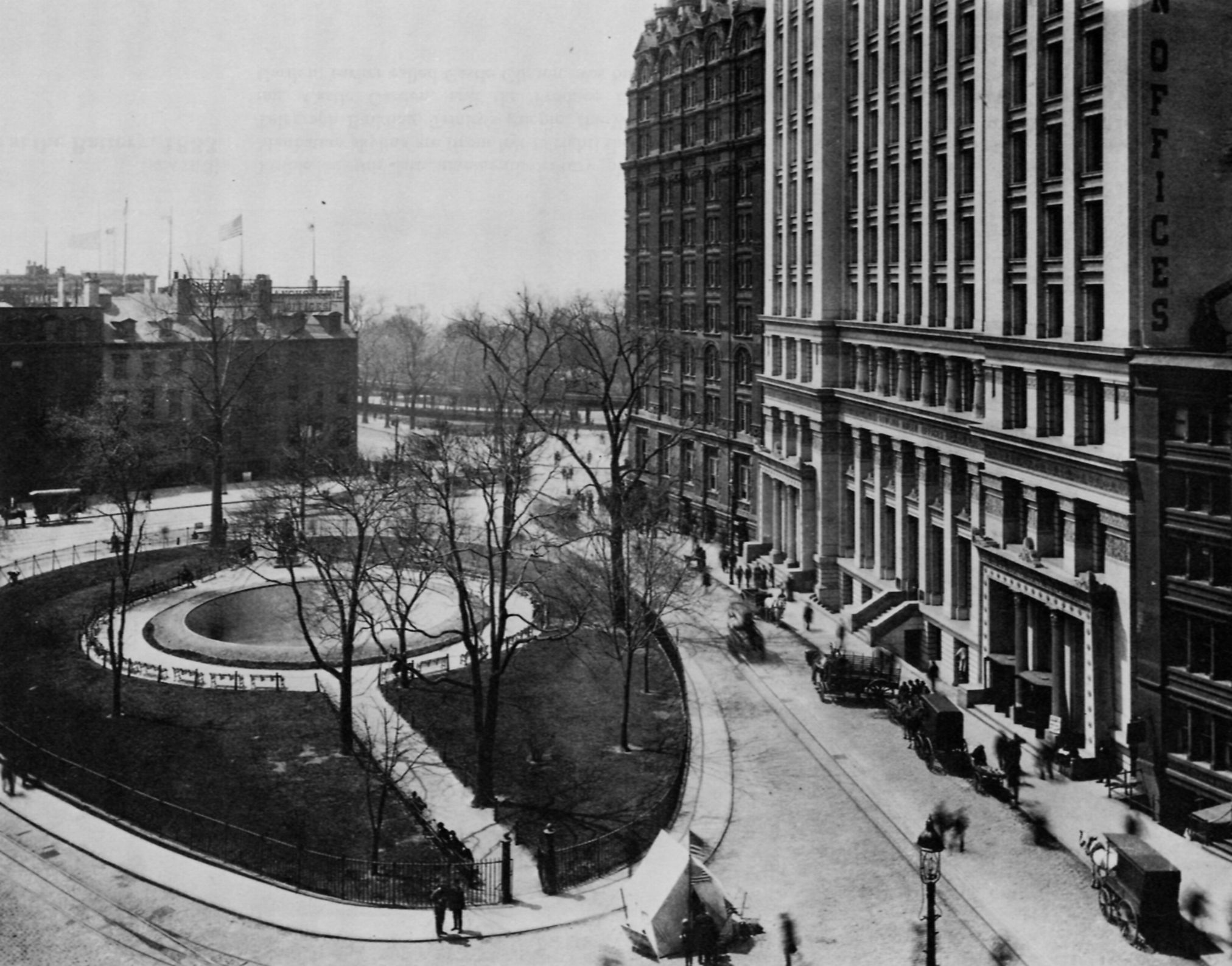 Bowling Green, New Yorks first park